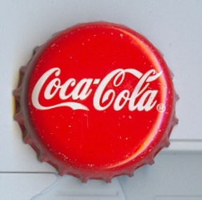 Chapa de Coca Cola Note: Logo is out of copyright in the United States (see File:Coca-Cola logo.svg).